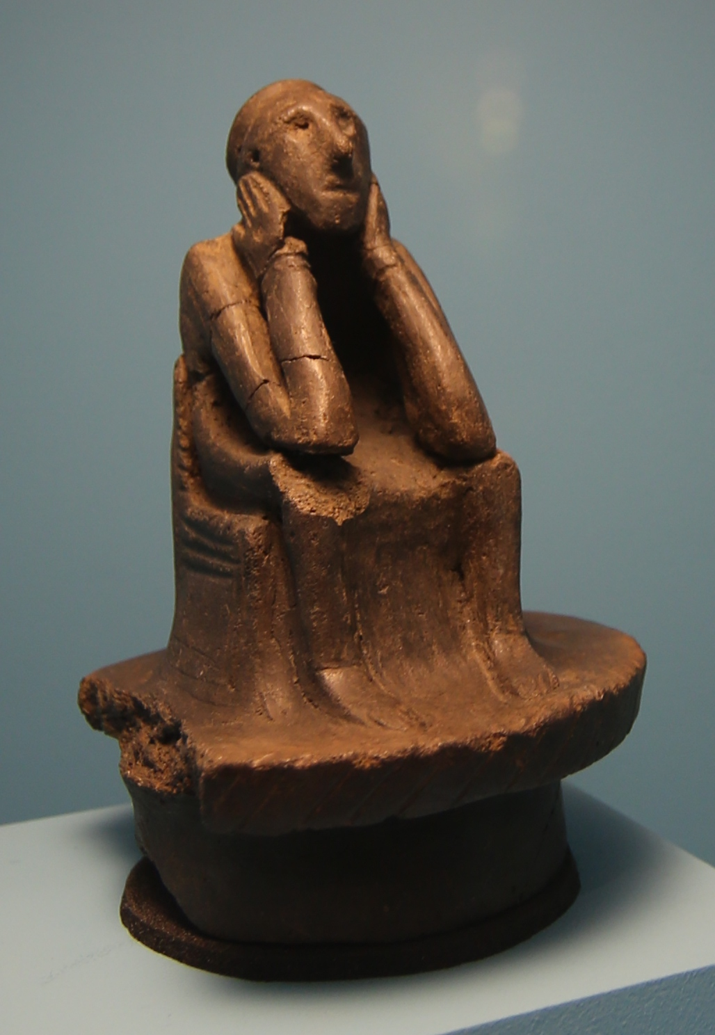 Photo of the Spong Man pottery lid, on display at the Norwich Castle Museum and Art Gallery.